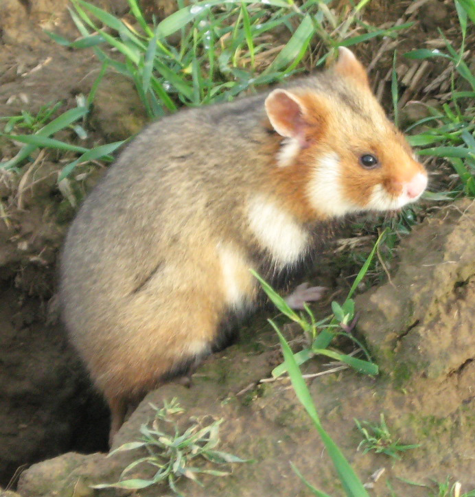 Cricetus cricetus - Lubin area; Poland